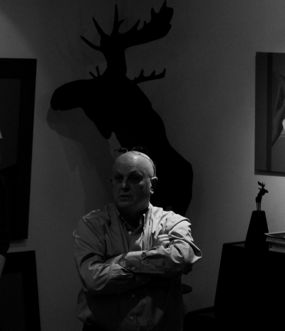 Portrait of Charles Pachter